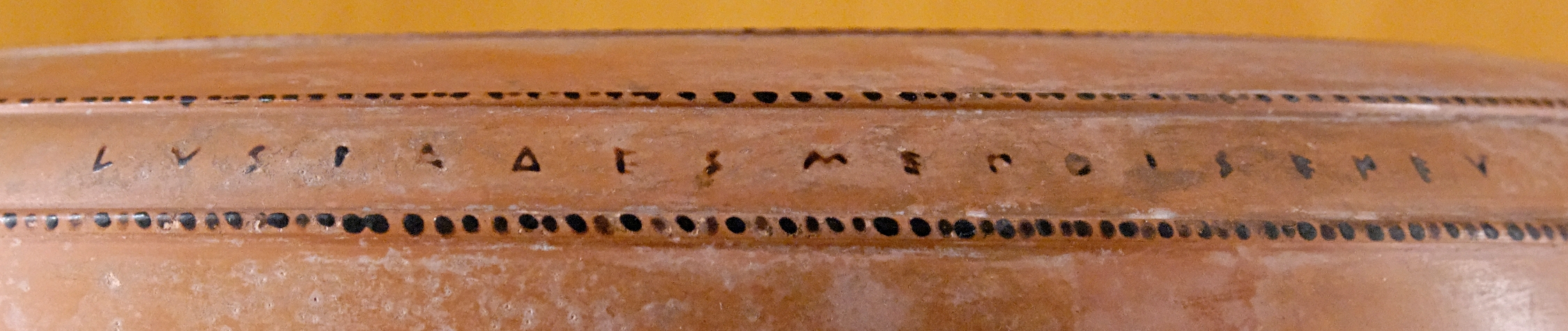 kothon